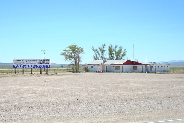 Looking from NV 266 on Lida Junction